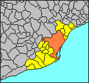 Entity of the Transport (Barcelona metropolitan area)